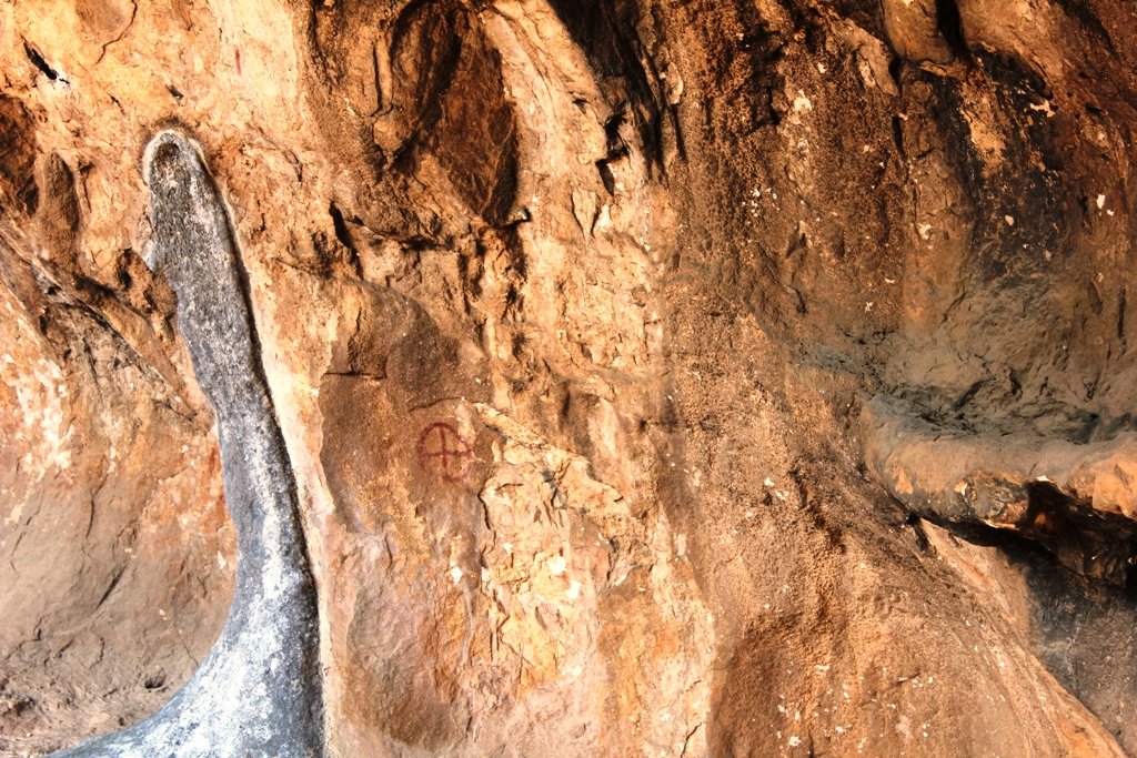 Mallata: Signo circular